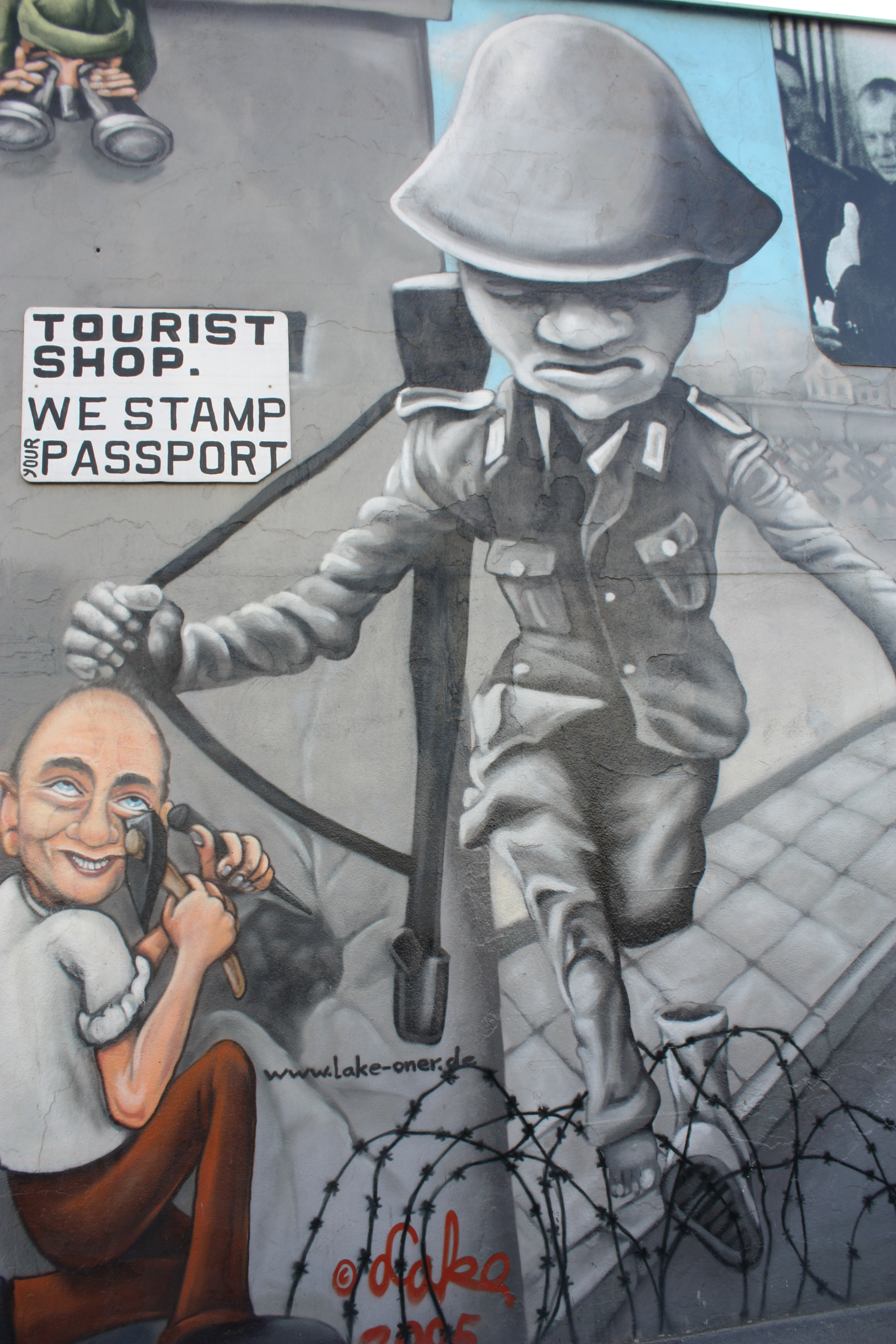 The East Side Gallery, an international memorial for freedom on a 1.3km long section of the Berlin Wall, near the centre of Berlin on Mühlenstraße in Friedrichshain-Kreuzberg. The Painting shows the famous jump of guard Conrad Schumann.